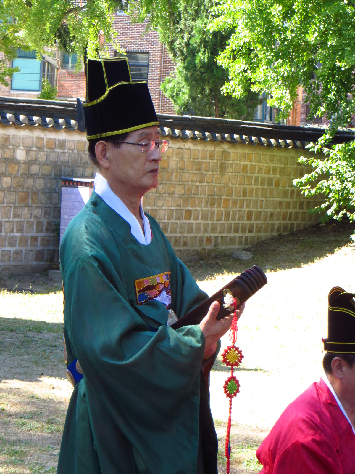 Added picture to bak (Korean clapper)